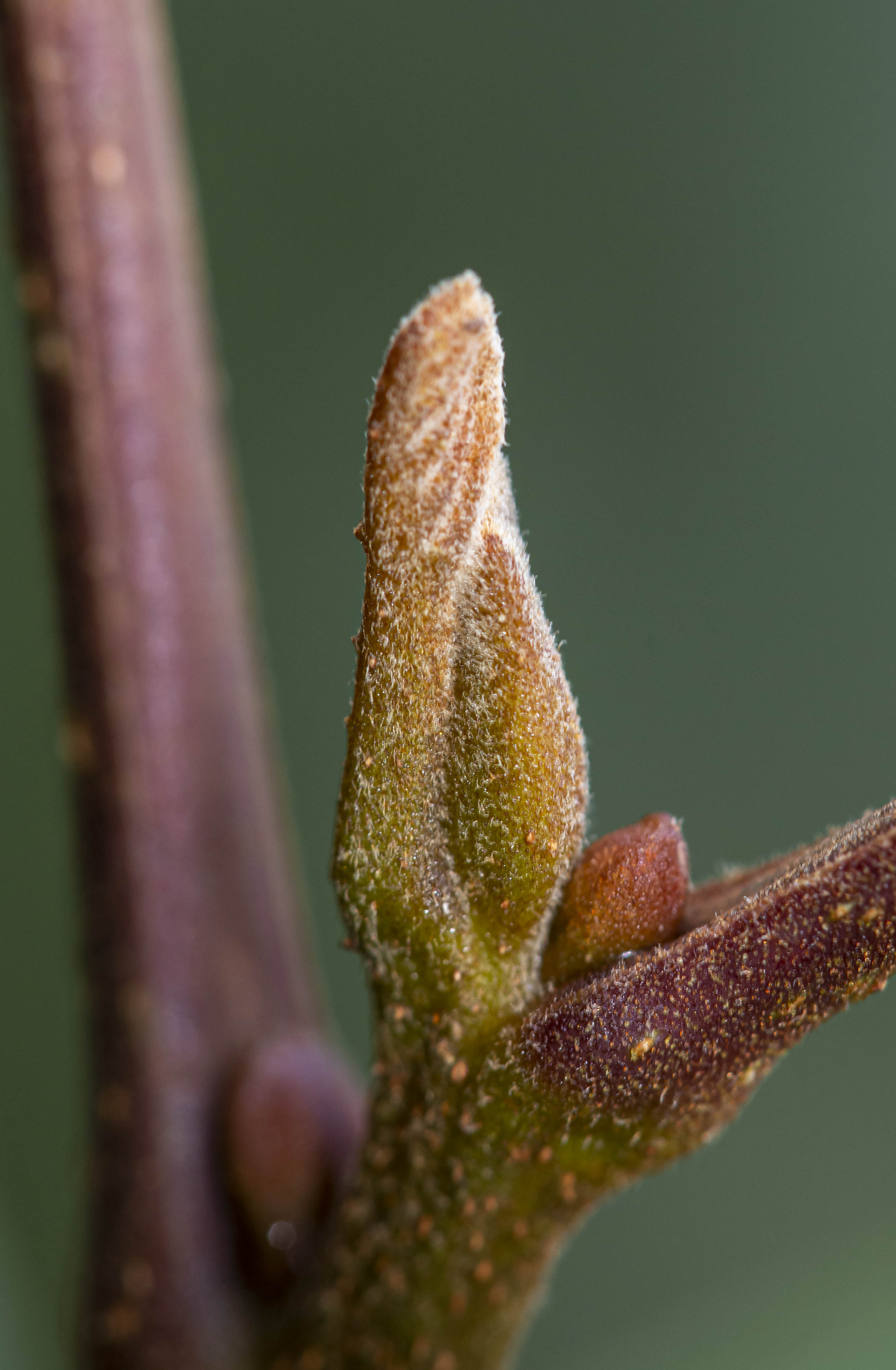 Carya aquatica bud. Arnold Arboretum of Harvard University, accession #32-2013*B.